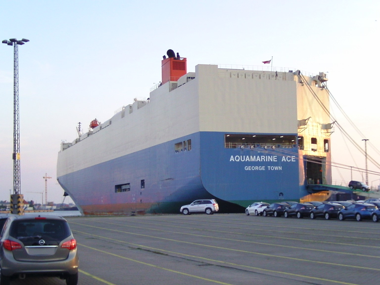 The car carrier Aquamarine Ace of the Japanese shipping company Mitsui O.S.K. Lines (MOL) in the port of Bremerhaven